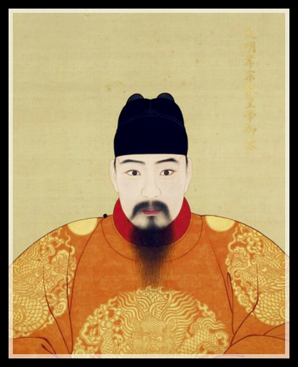 Portrait of Emperor Xiaozong of Ming Dynasty China